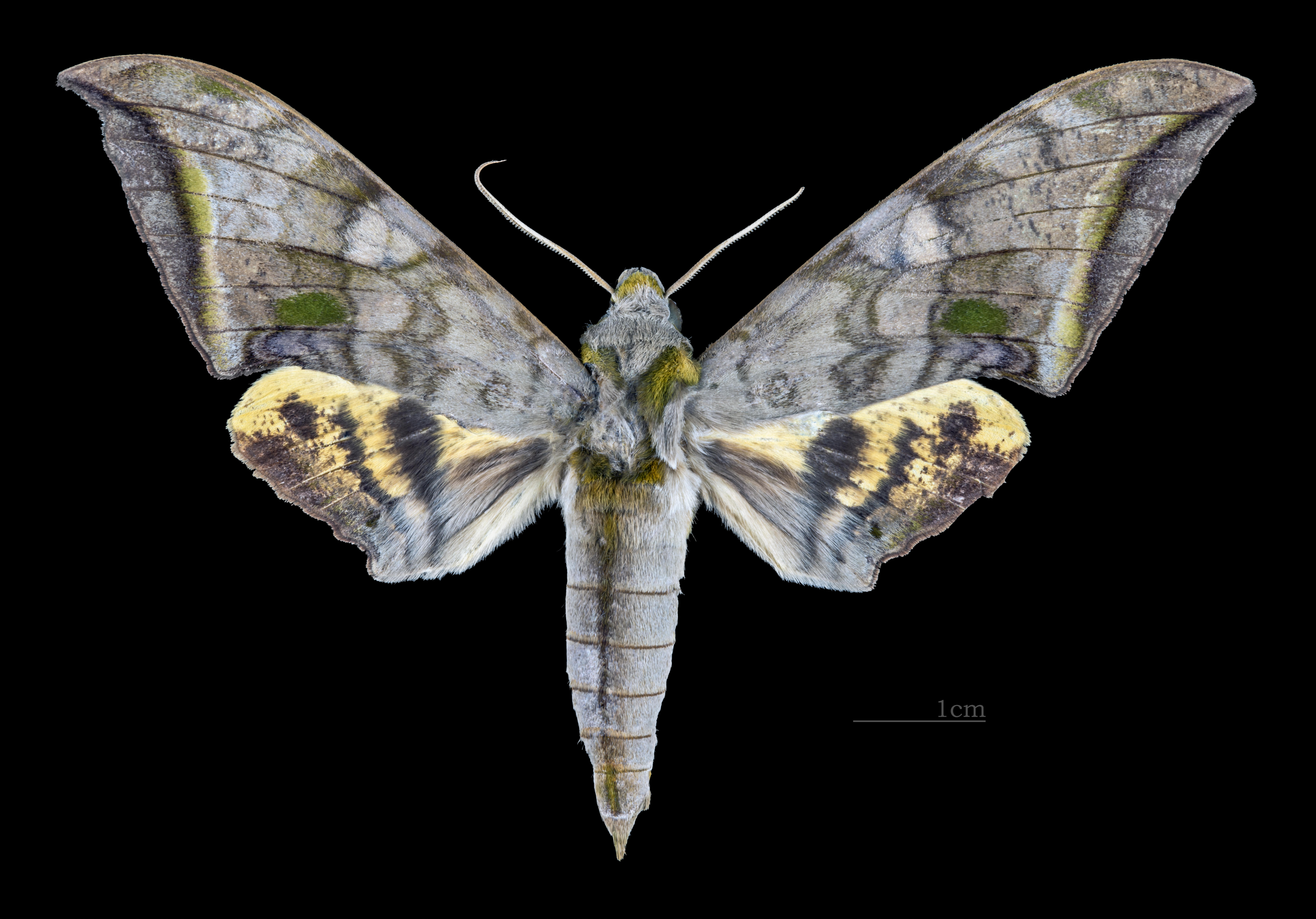 Ambulyx immaculata - Dorsal side Collection of the Mathematician Laurent Schwartz